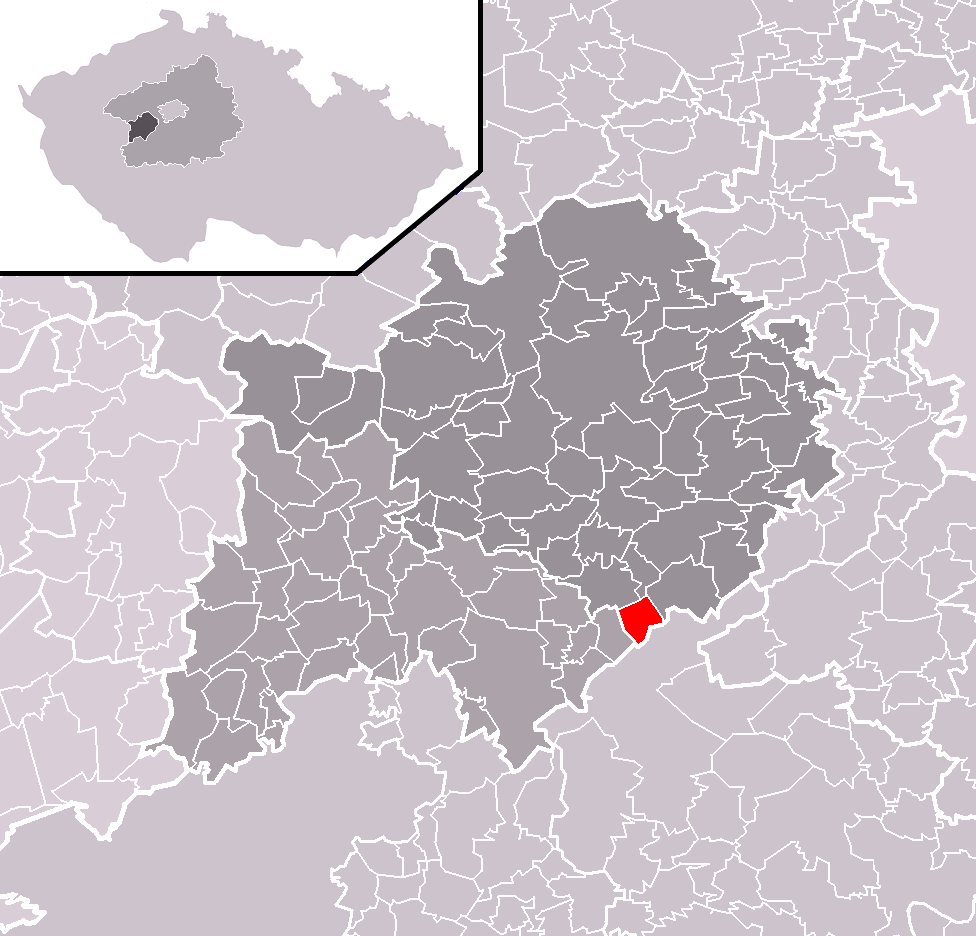 Location of Podbrdy municipality within Beroun District and administrative area of Beroun as a Municipality with Extended Competence.